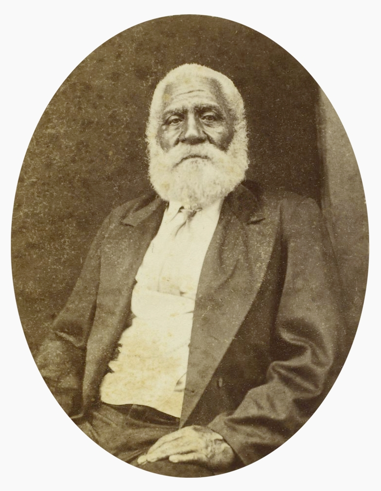 Cakobau, ex-King of Fiji, photograph by Francis H. Dufty.